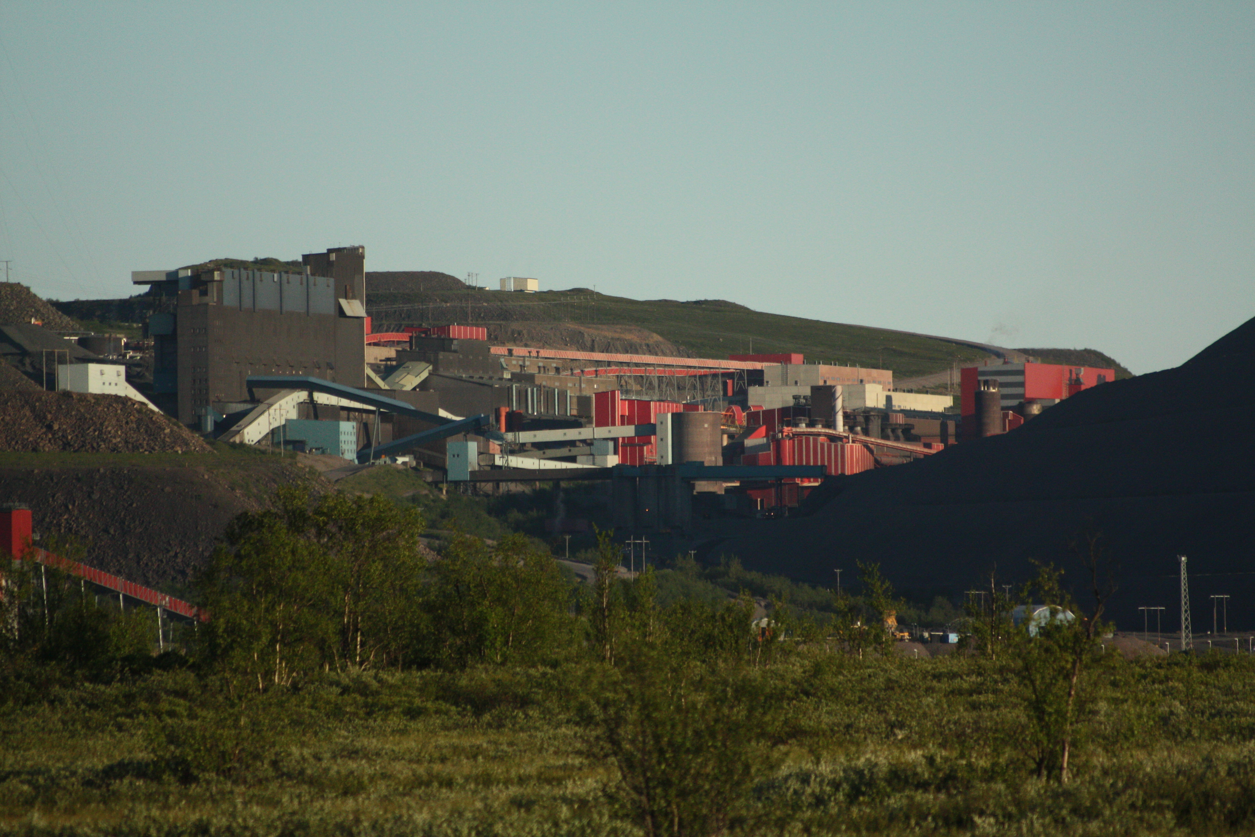 The concentrating and pelletzing plants of the mining company LKAB, on the western side of the mountain Kiirunavaara as seen from the northern shores of Lake Luossajärvi.